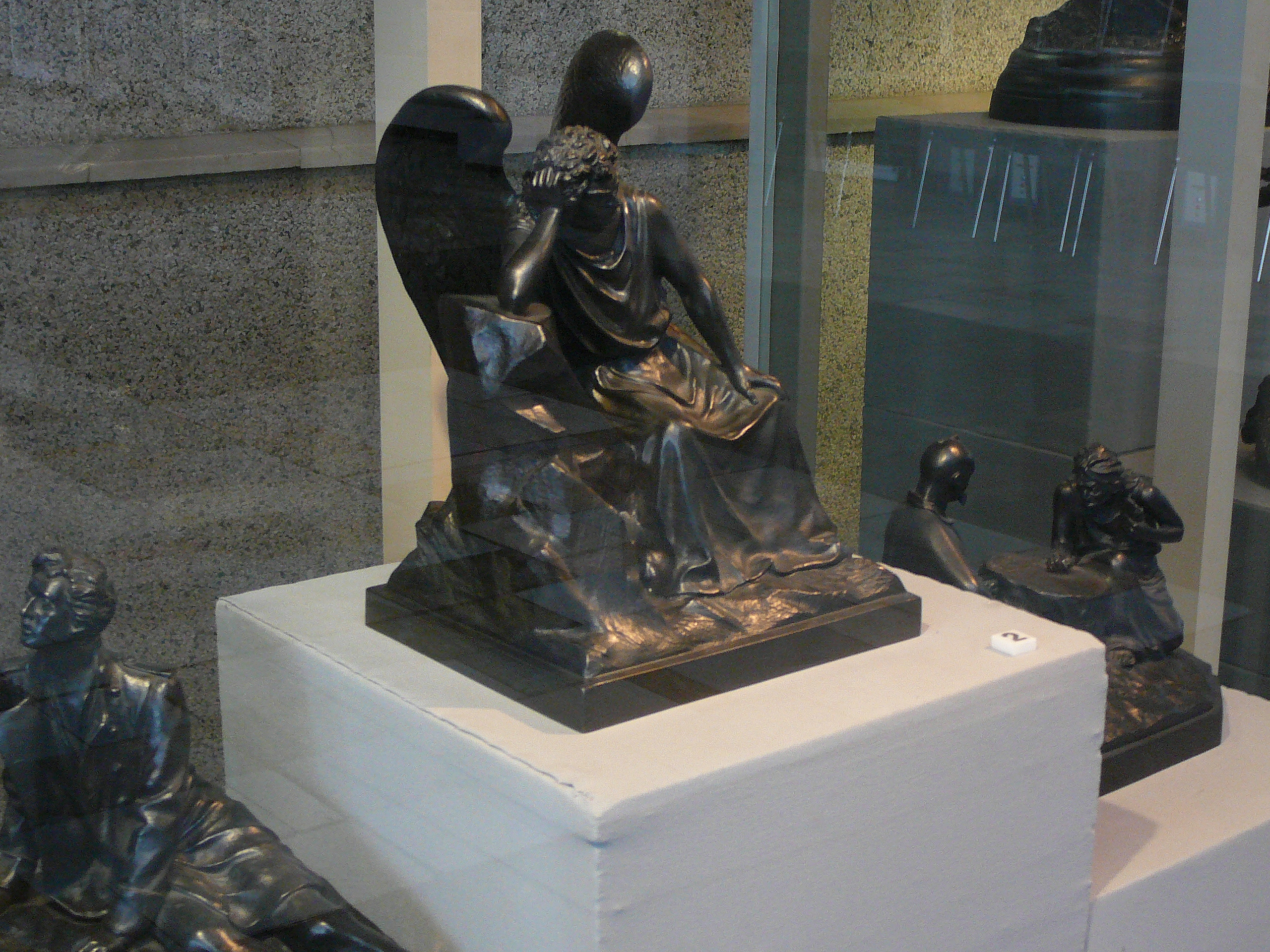 sculpture "The Demon" (1900), established S.A. Ossowski (and the floor. XIX - beg. XX centuries) in the Ekaterinburg Museum of Fine Arts